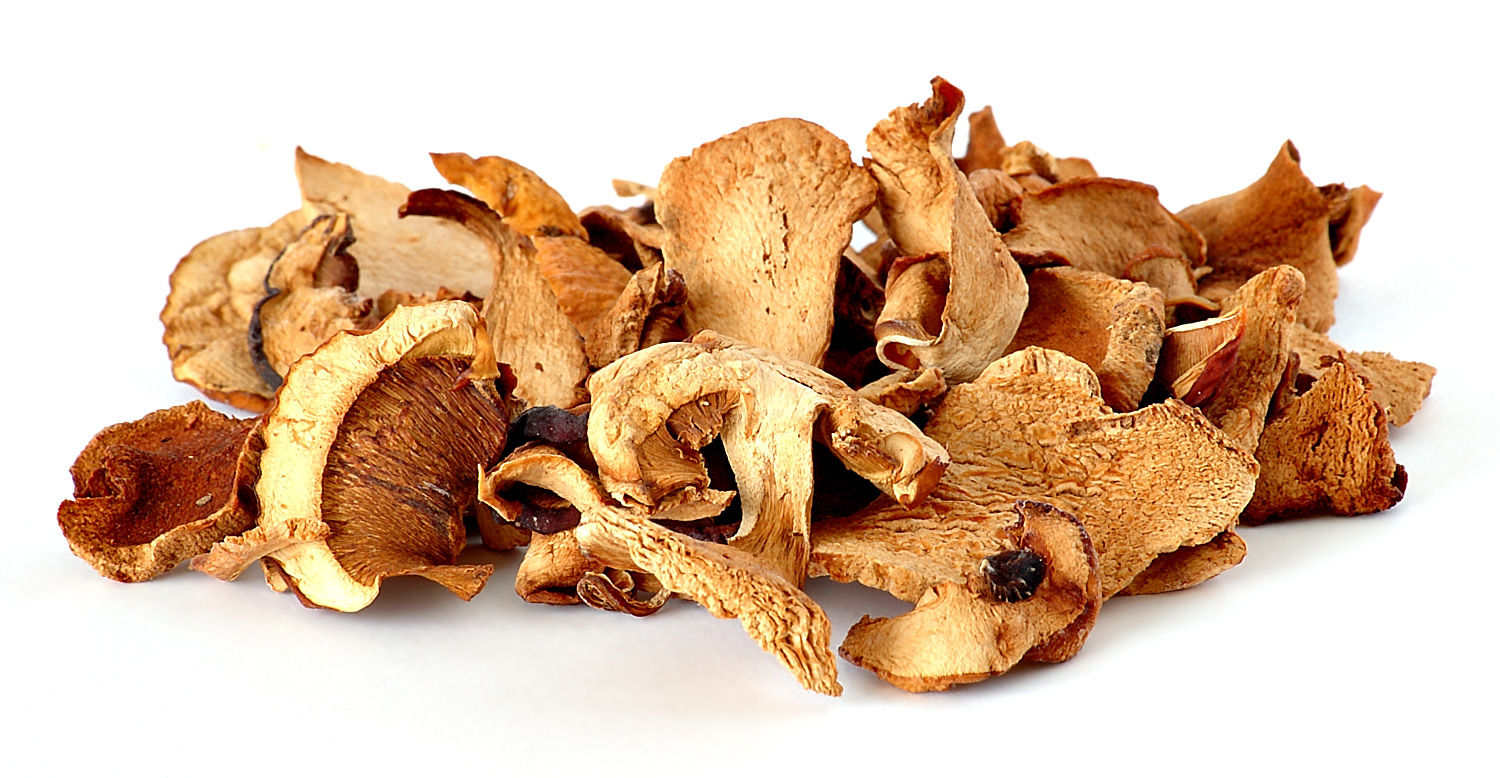 This image shows a few dried mushrooms.